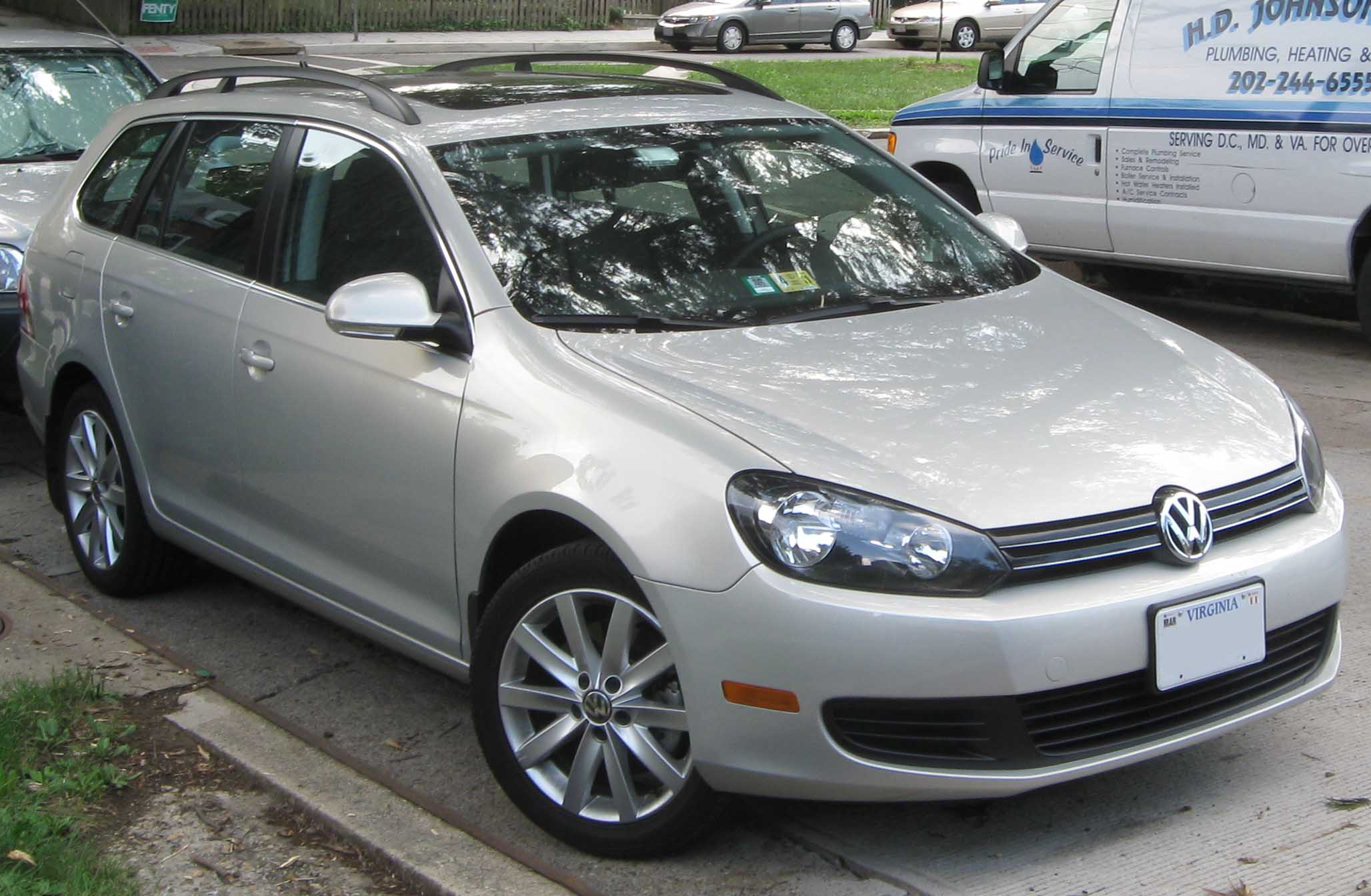 2010 Volkswagen Jetta TDI Sportwagen photographed in Washington, D.C., USA.